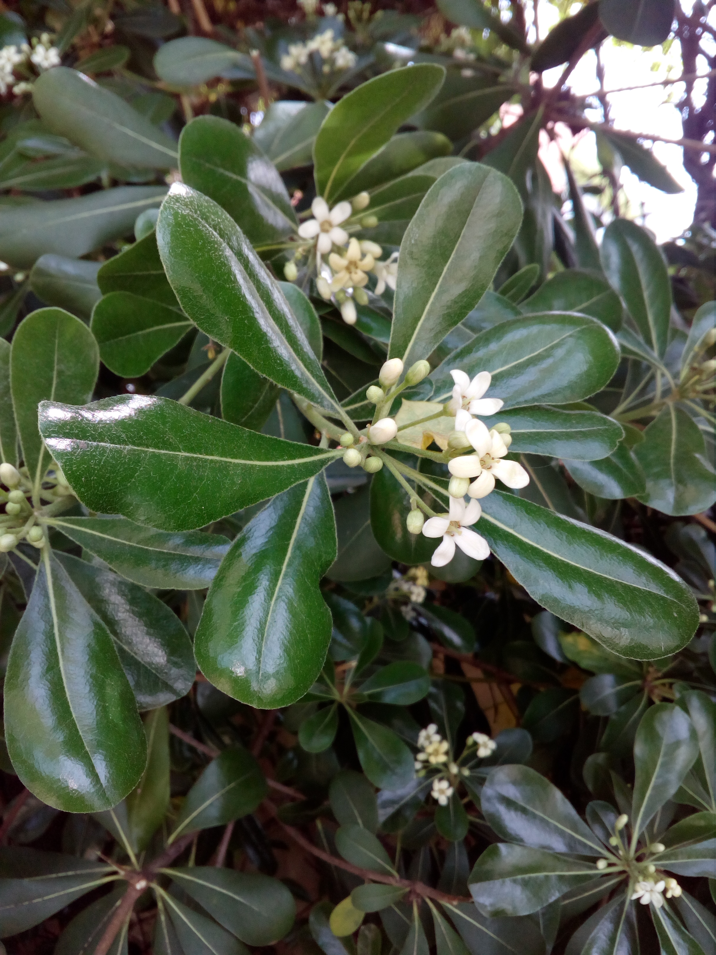 Flowers of pittosporum tobira